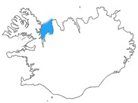 Map of Iceland showing the location of Húnaflói fjord.